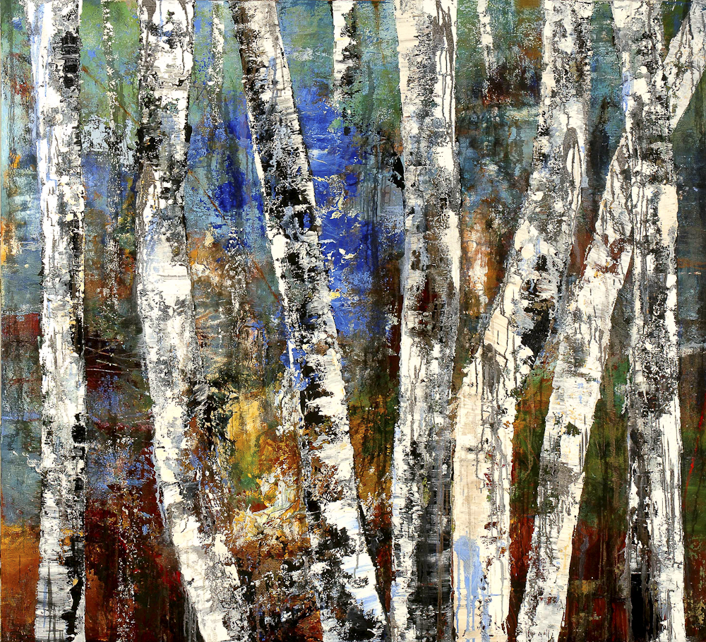 Painting by Adam Shaw